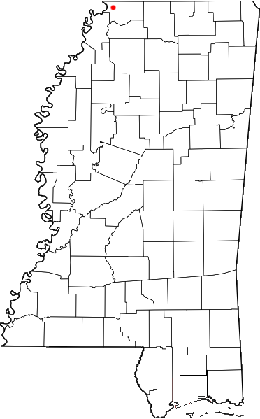 Walls, Mississippi location map; created with the GIMP. Made by User:Acntx. Adapted from Wikipedia's Mississippi County Maps.